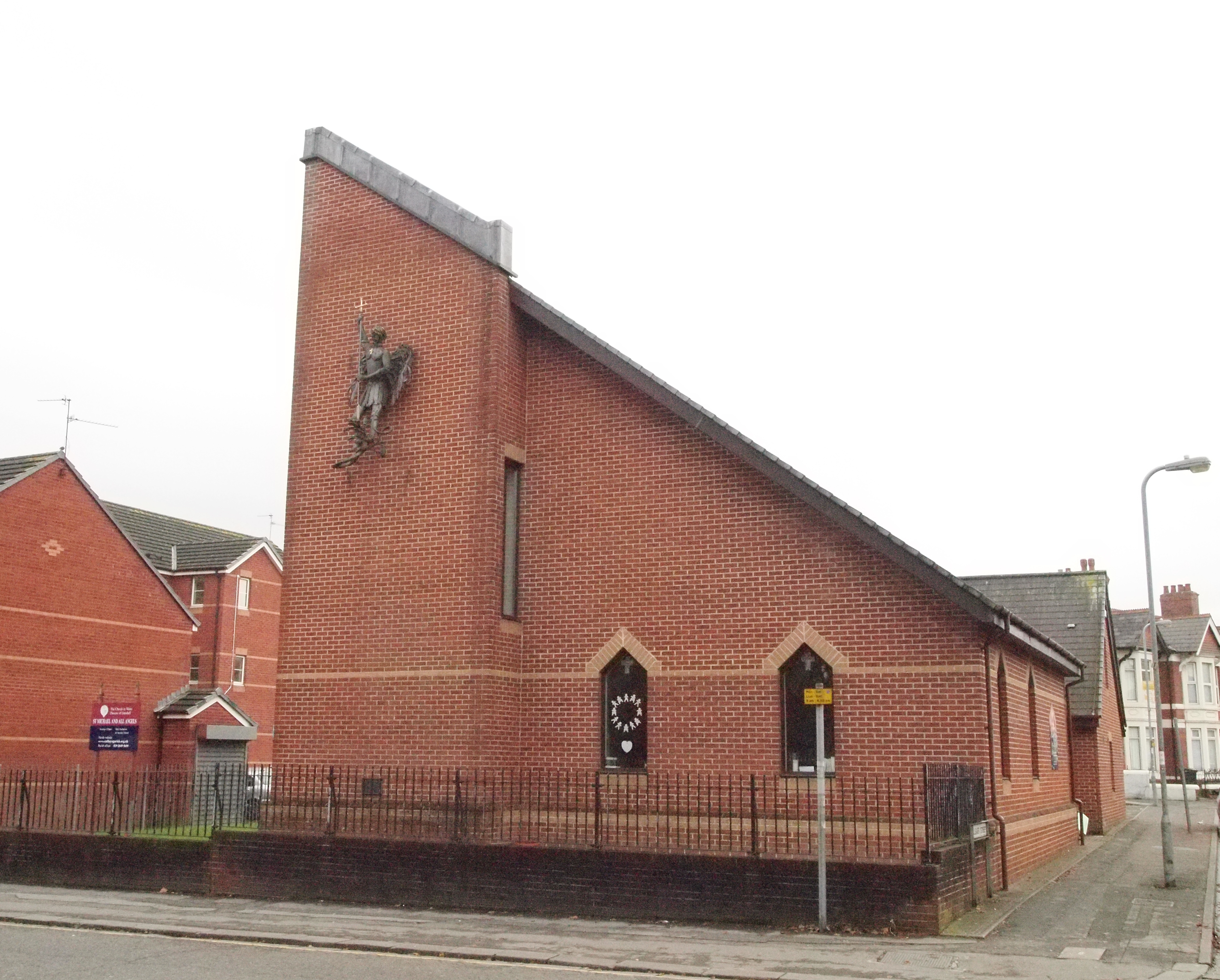 St Michael and All Angels Church, Whitchurch Road, Cardiff